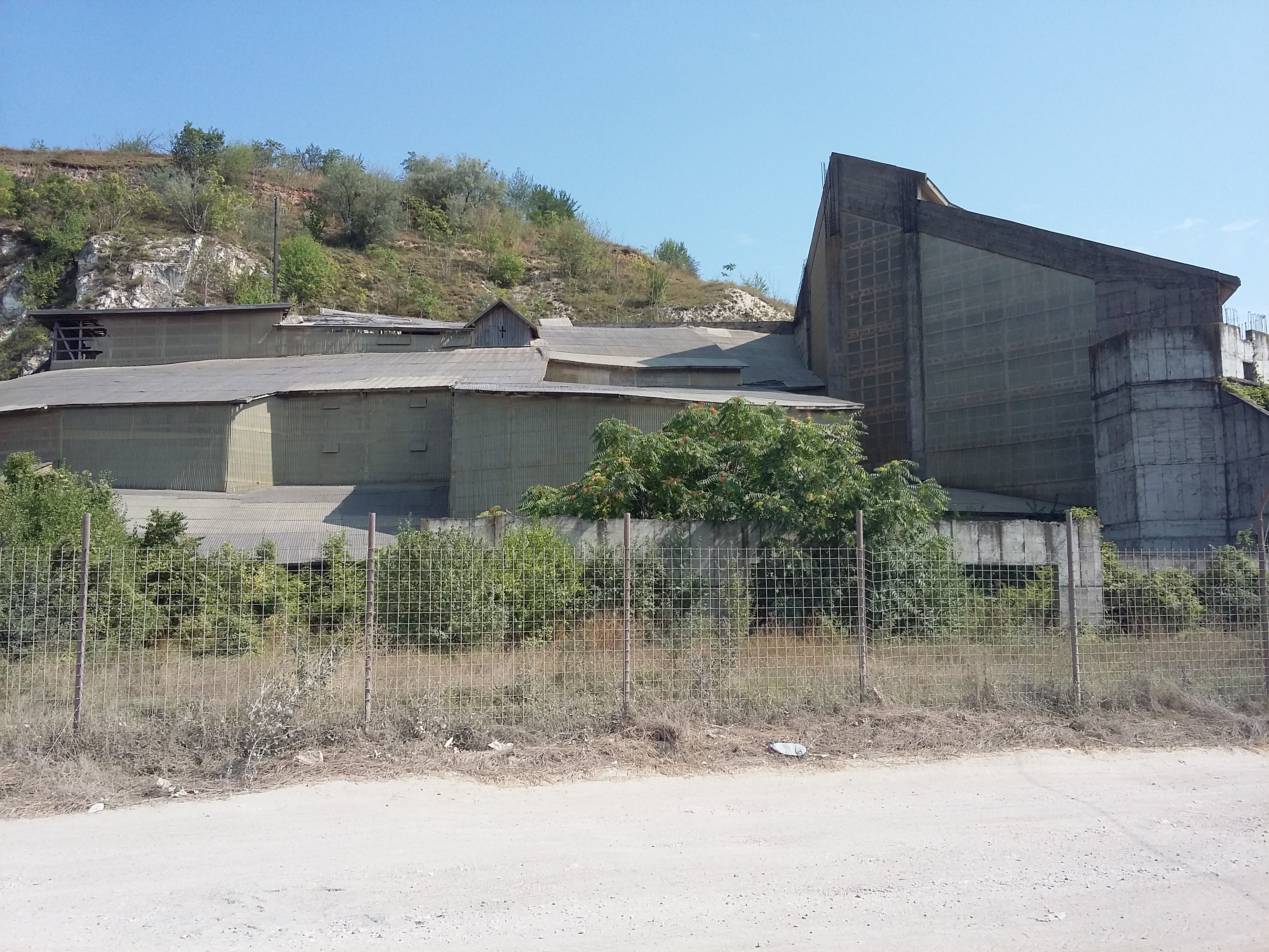 Murfatlar monastery front view